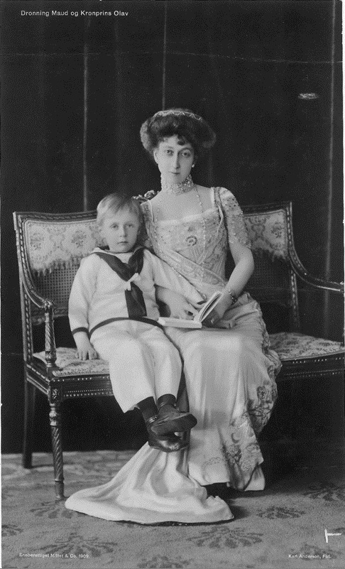 Queen Maud of Norway and her son Olav, later Olav V of Norway